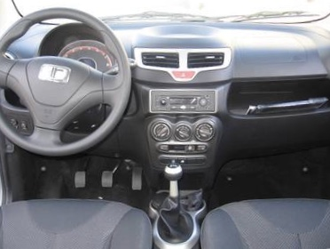 DR Zero interior